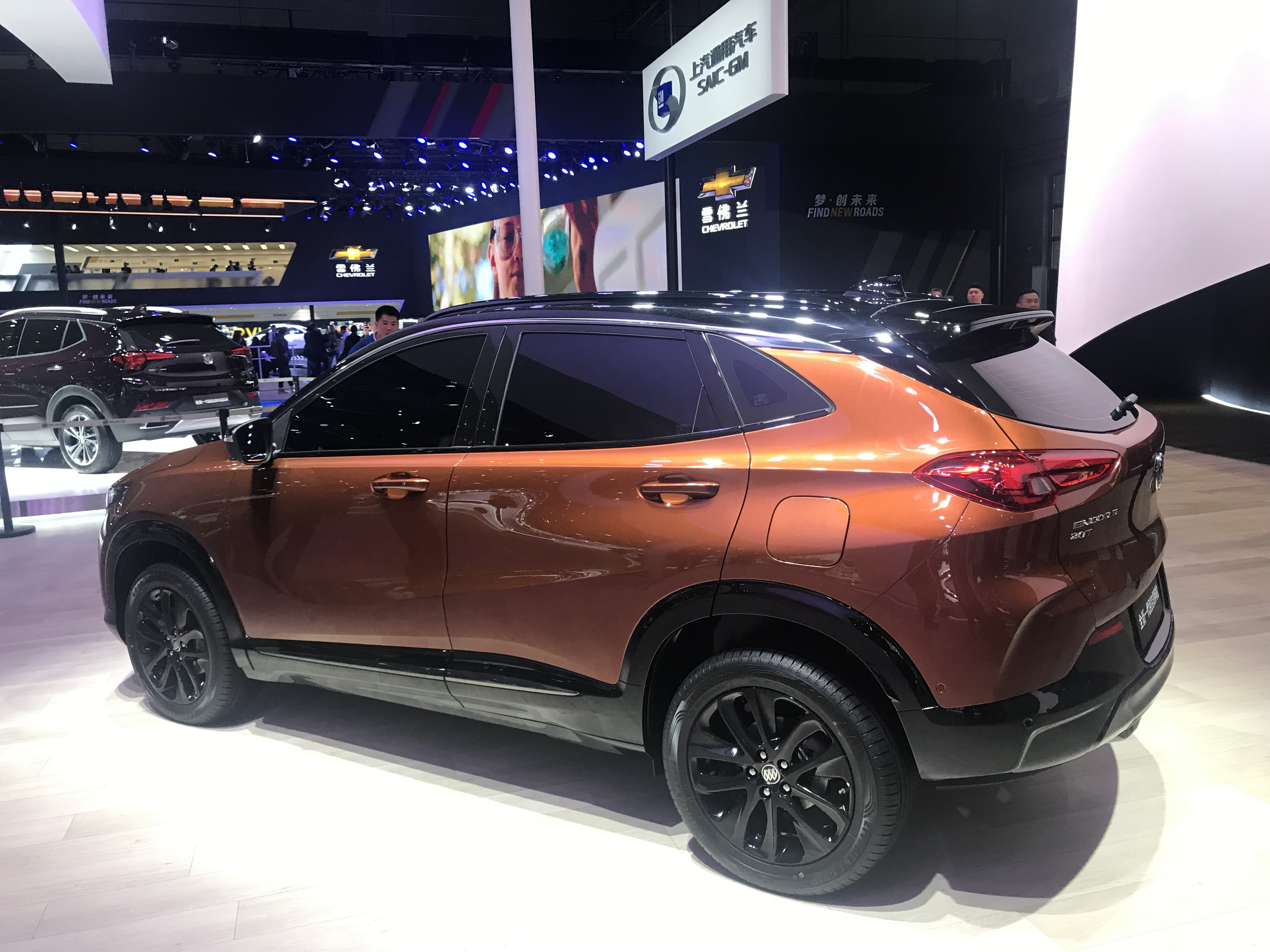 Second generation Buick Encore